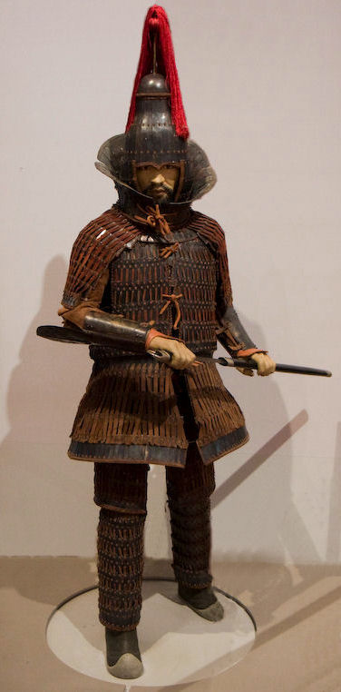 Korea-Gaya Warrior.